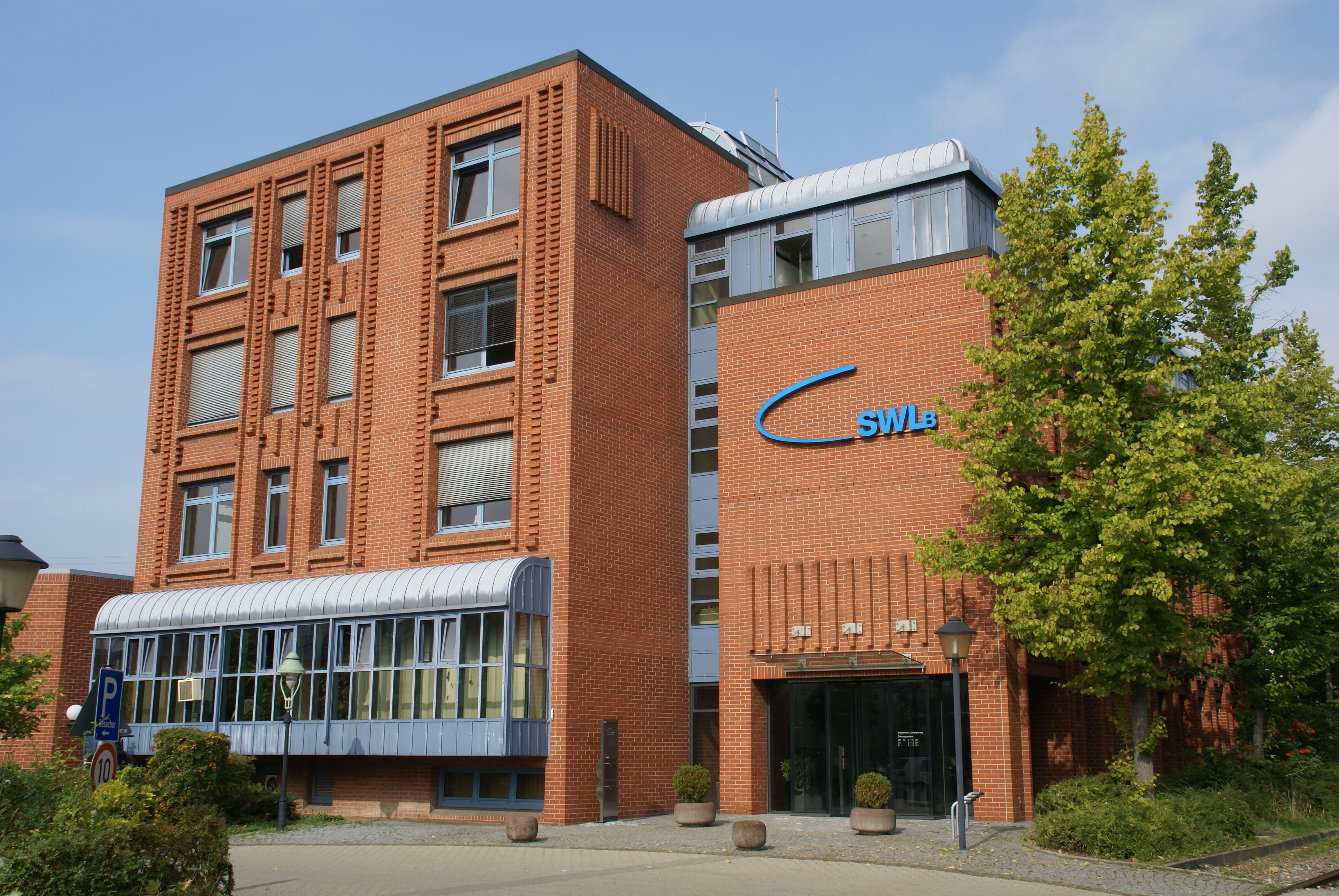 Office